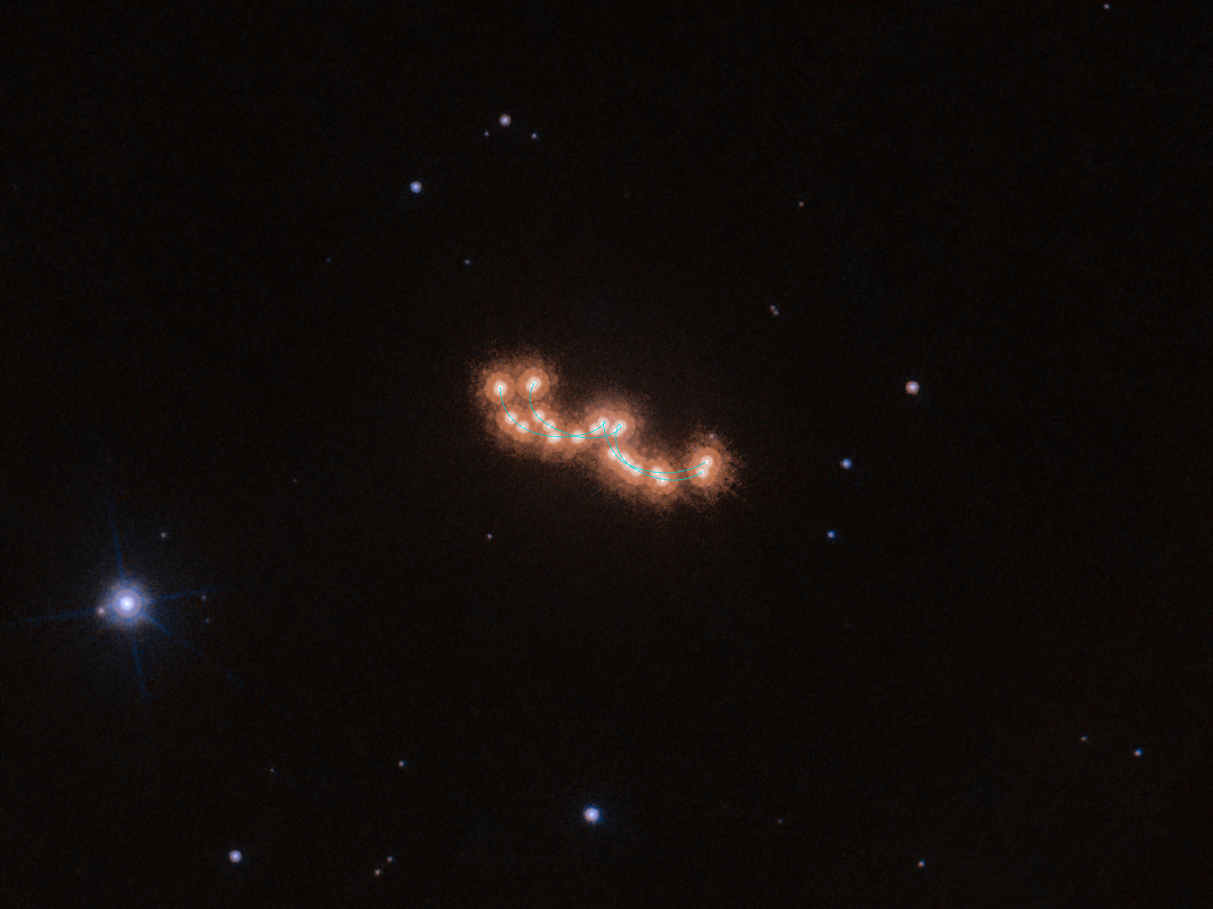 This seemingly unspectacular series of dots with varying distances between them actually shows the slow waltz of two brown dwarfs. The image is a stack of 12 images made over the course of three years with the NASA/ESA Hubble Space Telescope. Using high-precision astrometry, an Italian-led team of astronomers tracked the two components of the system as they moved both across the sky and around each other. The observed system, Luhman 16AB, is only about six light-years away and is the third closest stellar system to Earth — after the triple star system Alpha Centauri and Barnard’s Star. Despite its proximity, Luhman 16AB was only discovered in 2013 by the astronomer Kevin Luhman. The two brown dwarfs that make up the system, Luhman 16A and Luhman 16B, orbit each other at a distance of only three times the distance between the Earth and the Sun, and so these observations are a showcase for Hubble’s precision and high resolution. The astronomers using Hubble to study Luhman 16AB were not only interested in the waltz of the two brown dwarfs, but were also searching for a third, invisible, dancing partner. Earlier observations with ESO’s Very Large Telescope indicated the presence of an exoplanet in the system. The team wanted to verify this claim by analysing the movement of the brown dwarfs in great detail over a long period of time, but the Hubble data showed that the two dwarfs are indeed dancing alone, unperturbed by a massive planetary companion.